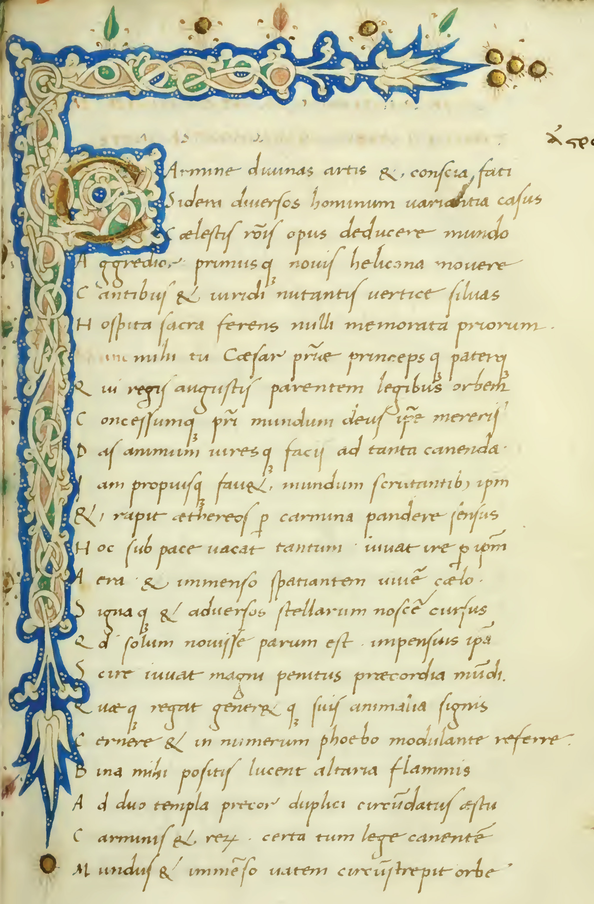 The opening page of the poem Astronomica by the Roman poet Manilius.